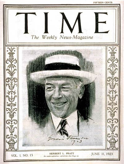 Time magazine, Volume 1 Issue 15, June 11, 1923The cover shows the oil industrialist, Herbert L. Pratt.